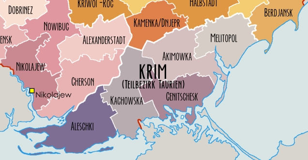 An administrative map of the Reichskommissariat Ukraine